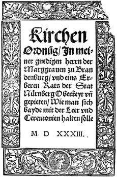 Title Page of "Kirchen Ordnu[n]g, in meiner gnedigen Herrn der Marggrauen zu Brandenburg". The volume containing this image is part of the Pitts Theology Library at Emory University. This image, and many others, have been included in the Pitts Digital Image Archive.